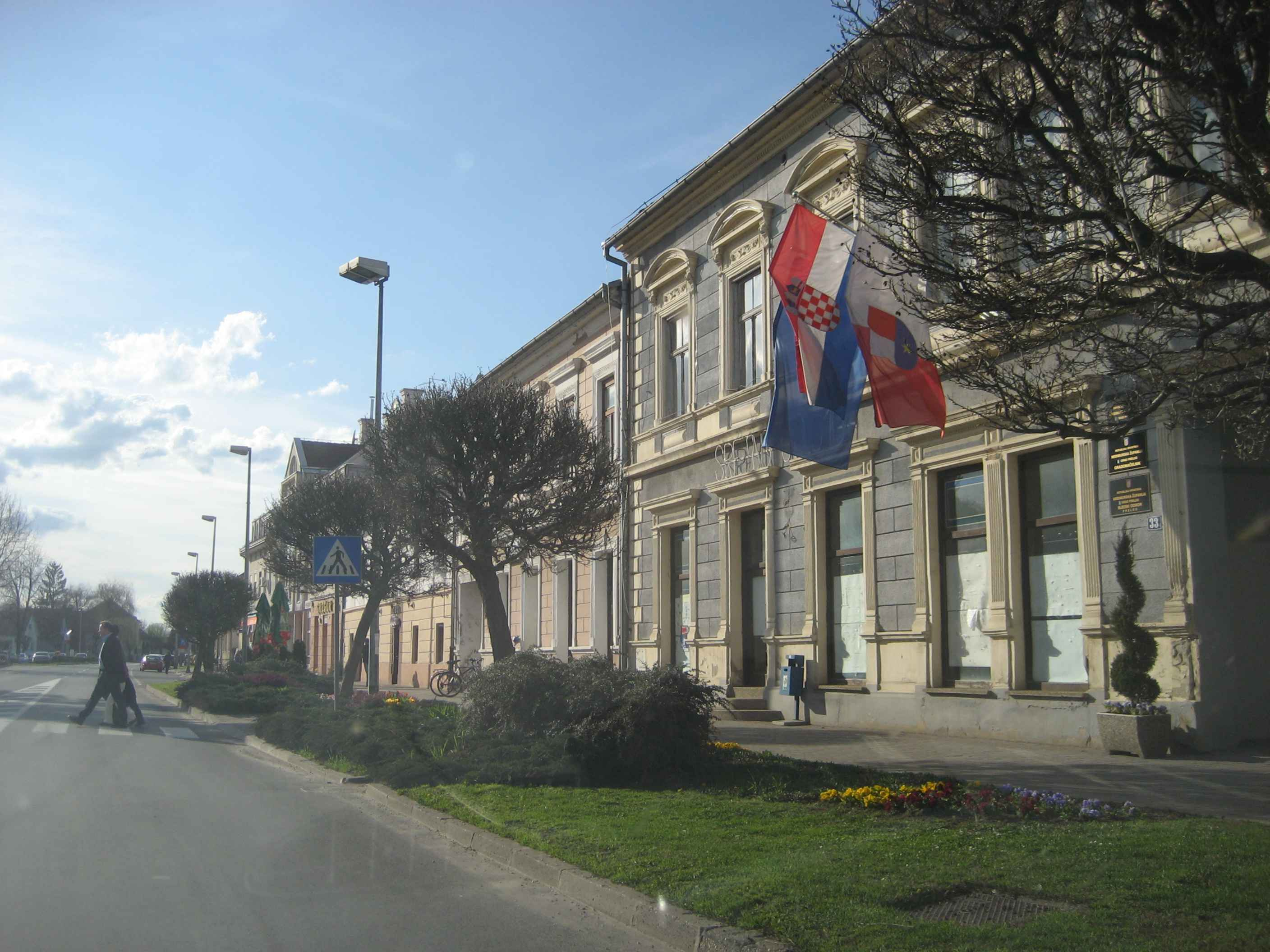 Centre of Prelog, Croatia